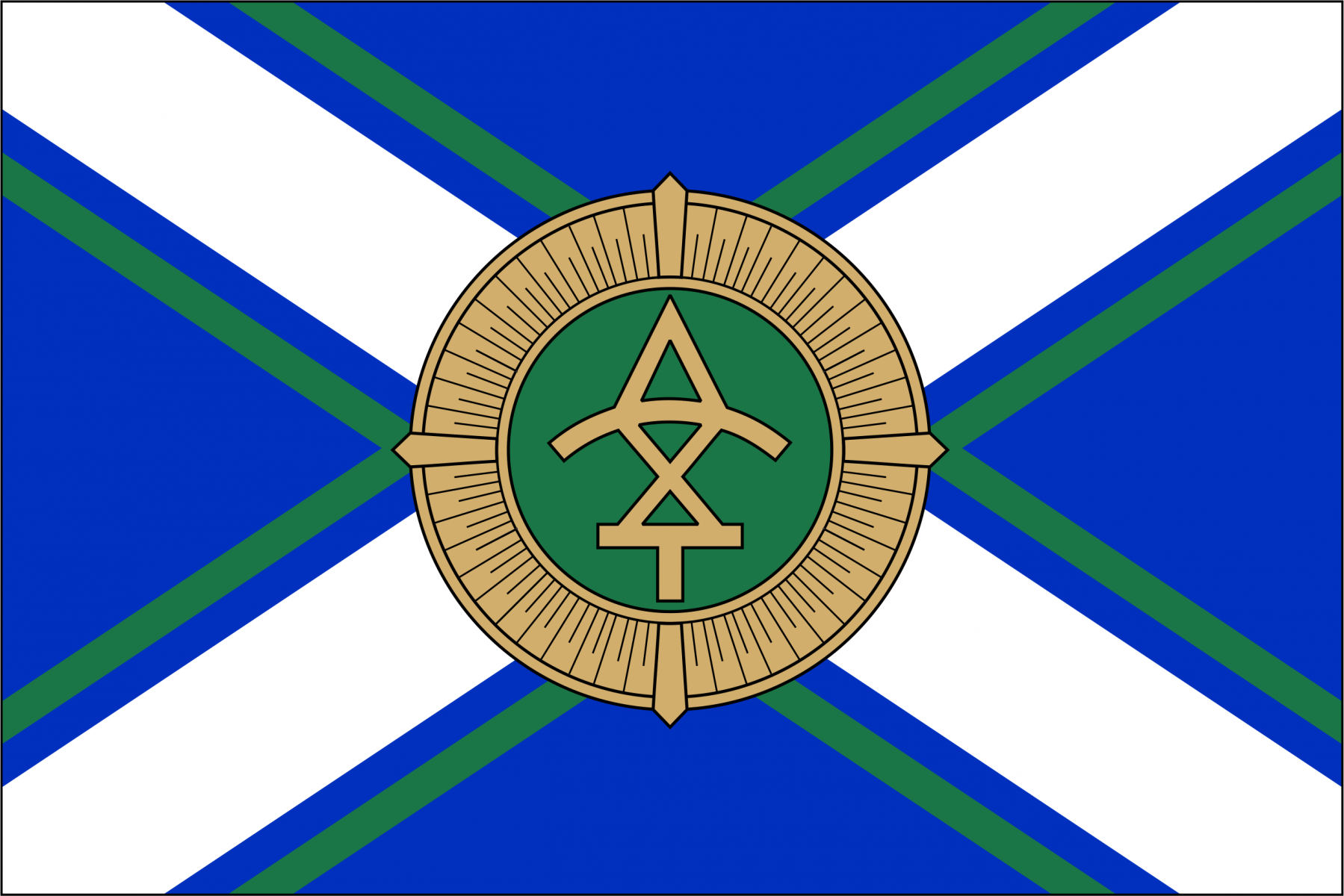 Georgia Coast Guard flag